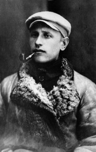 Kārlis Johansons, circa 1922. Also known as Kārlis Johansons (Latvian), birth Карл Вольдемарович Иогансон or Karl Voldemarovich Ioganson (Russian), partial residence Karlis Johansons or Karl Johannson (English) Karl Ioganson (German) Karel Ioganson (Greek) sometimes translated by hand or bot as Iogansons, Johanson, Johannson, Johanssons, Johannsons, Johanssons, Johnsons, or Carl From the Latvian Wikipedia article on Kārlis Johansons